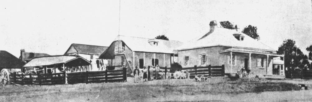 Andrew Petrie's house at the corner of Queen and Wharf Streets, Brisbane, ca. 1859 Andrew Petrie's residence now the site of Howard Smith Company's Offices, Petrie's Bight. On the verandah is Miss Petrie (who is about to accompany her father to meet Sir George Bowen). The Union Jack will flown on their private flagstaff. (Description supplied with photograph).